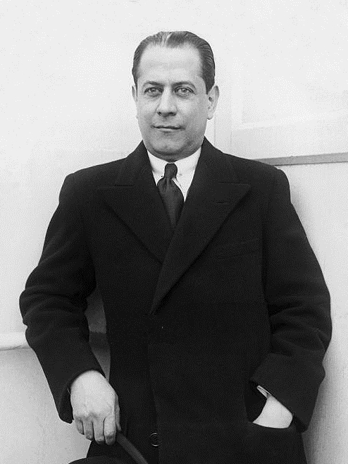 Jose Raul Capablanca, Cuban Chess Player, In March 1931